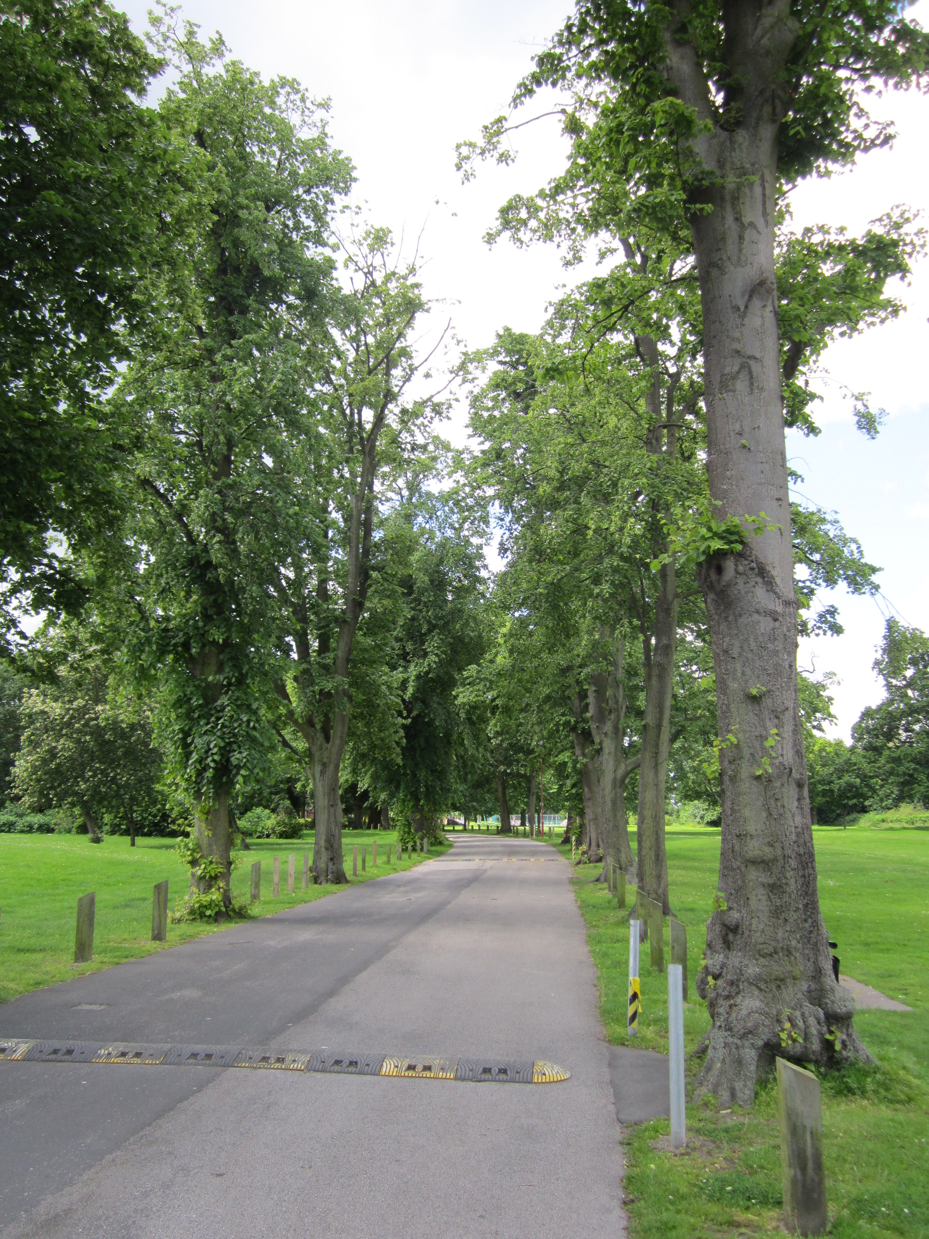 Photo taken at Whitby Park, Ellesmere Port, Cheshire, England.